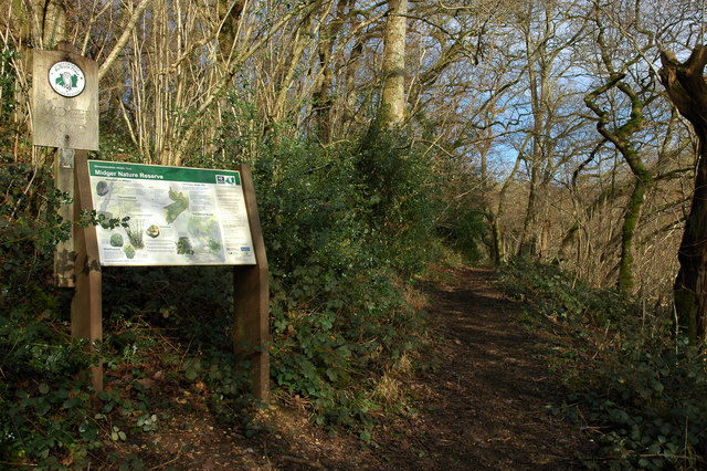 Midger Nature Reserve near Lower Kilcott, Glos. In the care of Gloucestershire Wildlife Trust. Midger Wood is an Site of Special Scientific Interest.